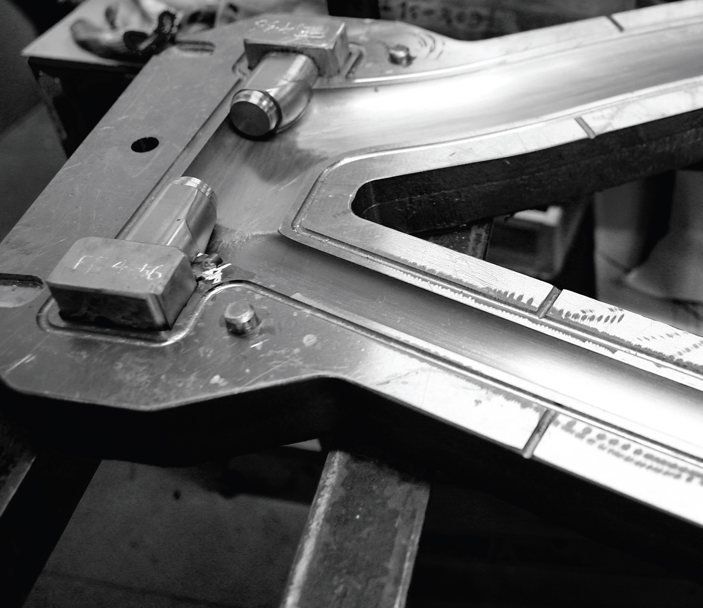 Mold for Carbon Frame